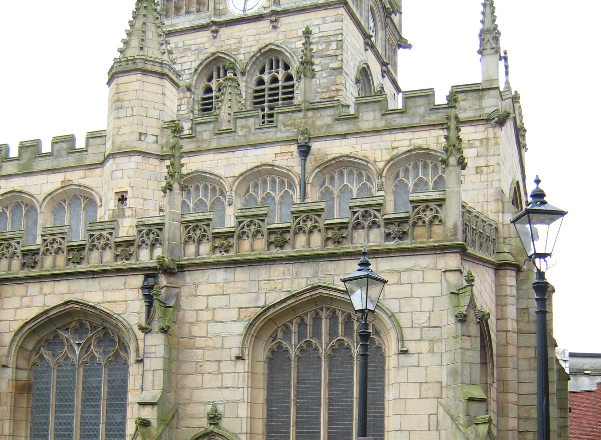 Part of All Saints' parish church, Wigan, Greater Manchester, seen from the south